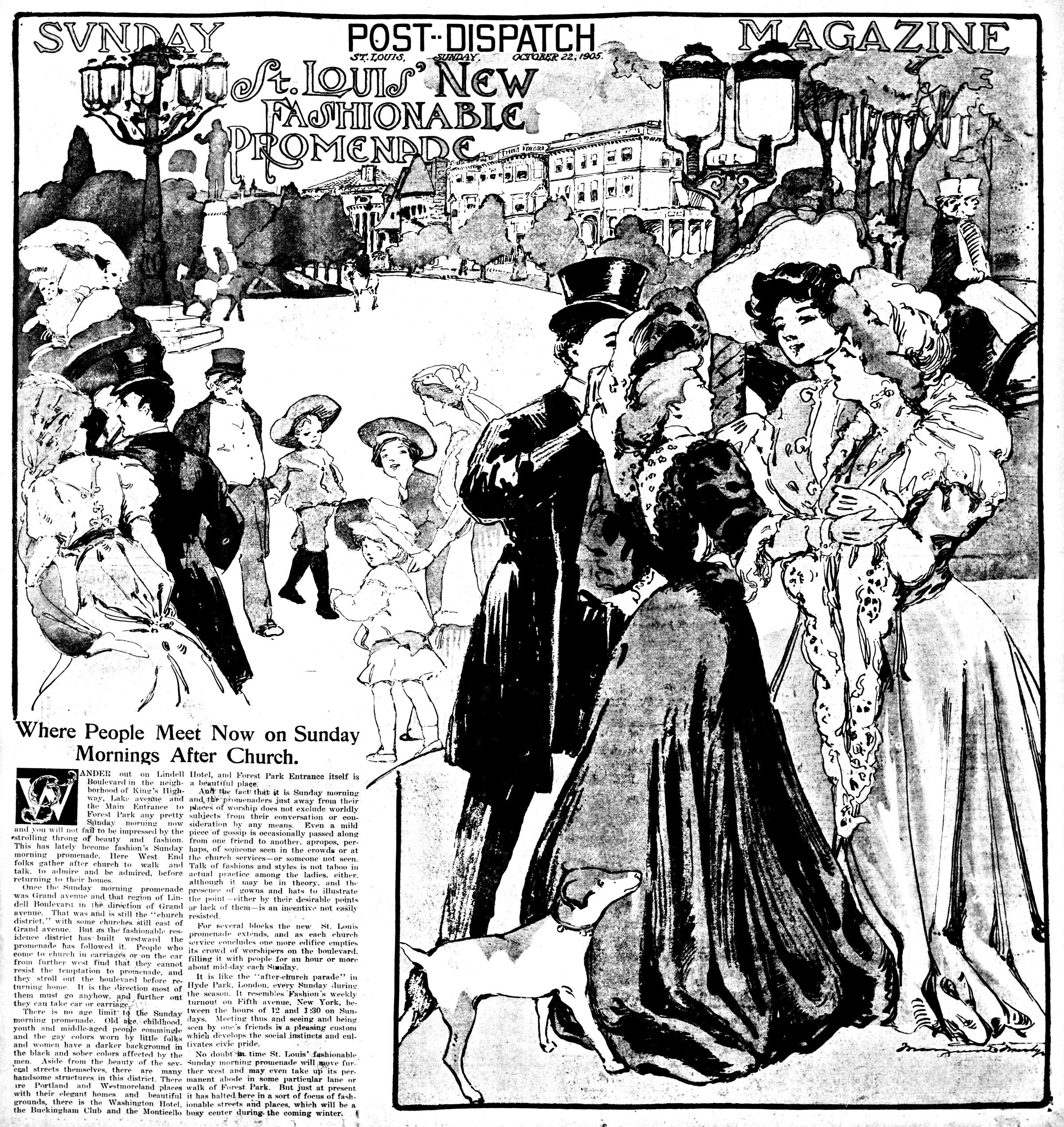 Front page of Sunday magazine of St. Louis Post-Dispatch with drawing by Marguerite Martyn showing people chatting and walking in 1905, with buildings in back. This is the neighborhood of King's Highway, Lake Avenue, and the main entrance to Forest Park.